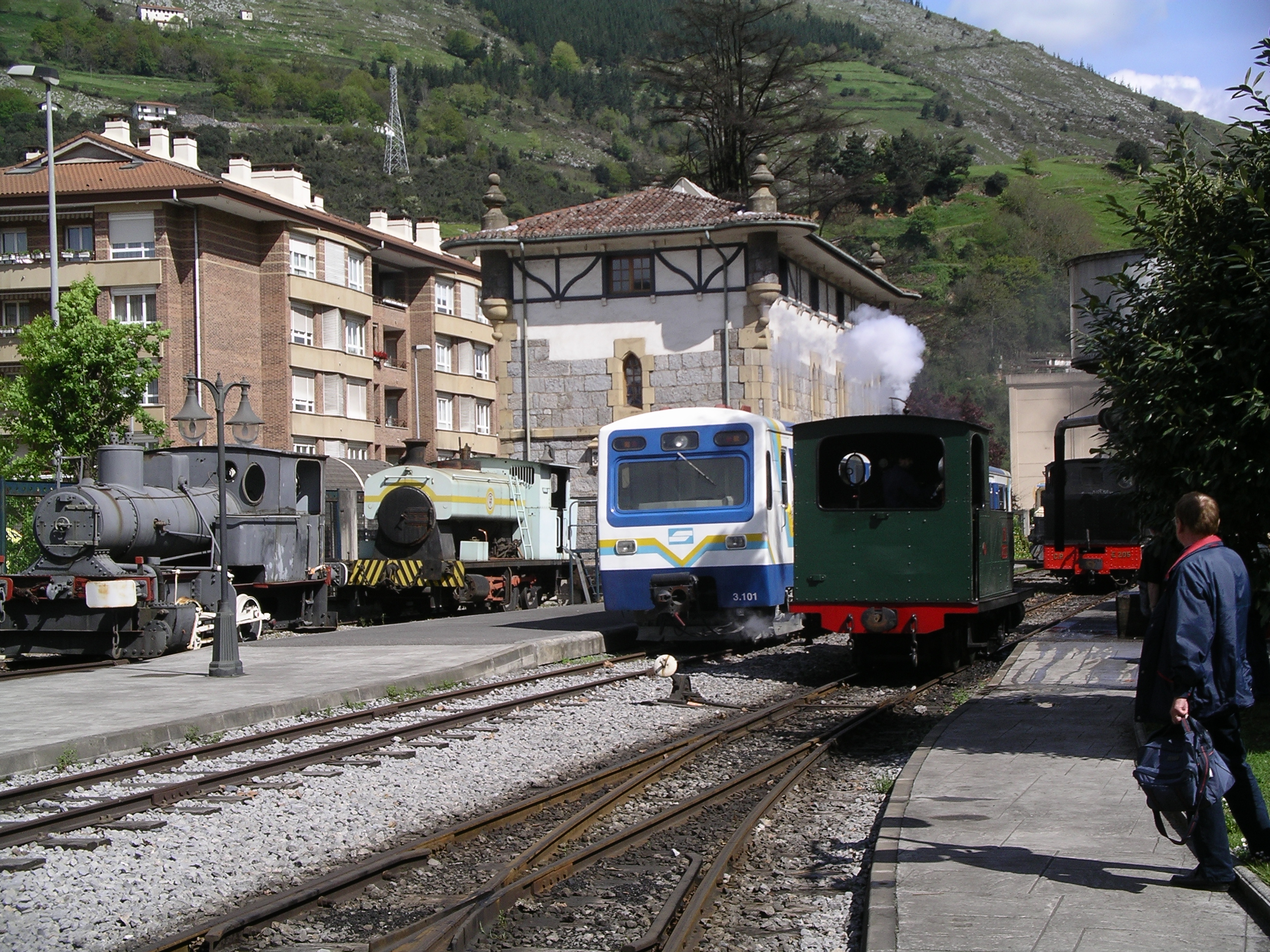 Railway Station Azpeitia, at the Basque Railway Museum in Azpeitia, Basque Country, Spain